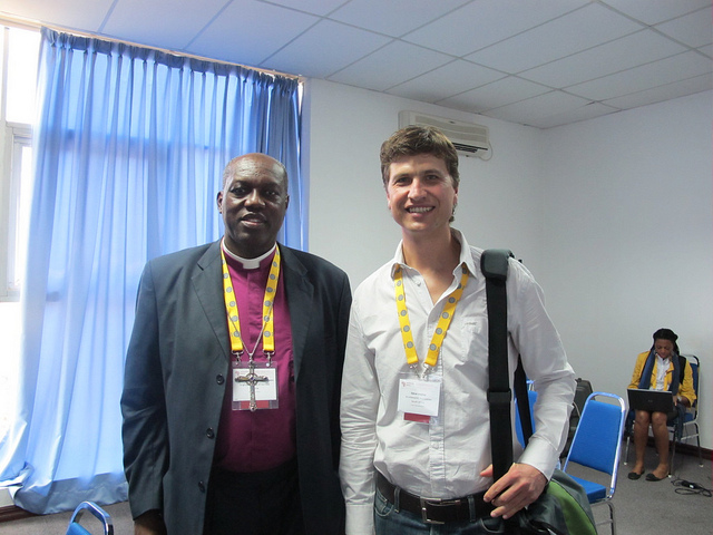 With the "Twittering" Bishop Johnson from the Gambia